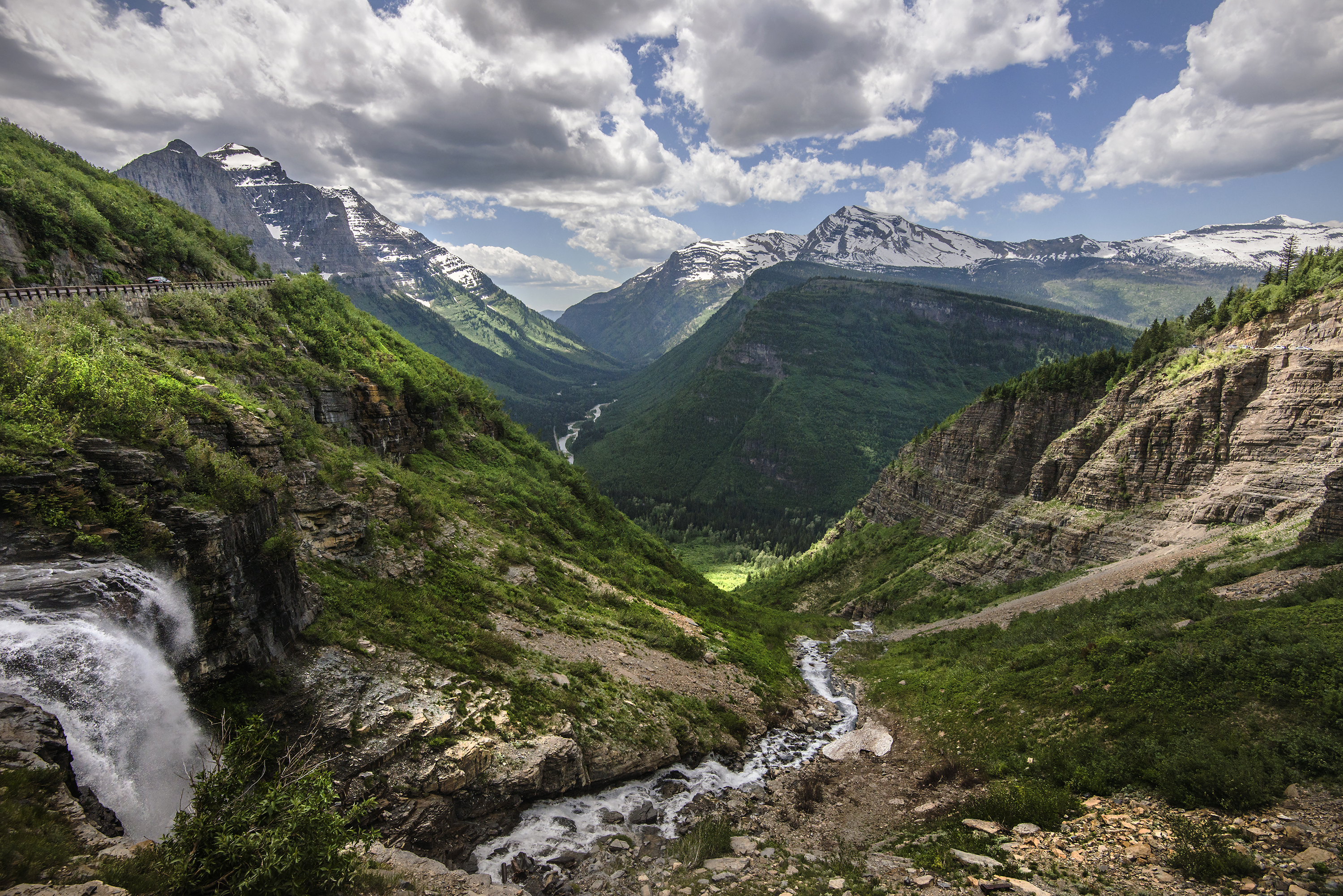 "Engineering marvel Going-to-the-Sun Road cuts through the middle of the park, but was designed to go relatively unnoticed."